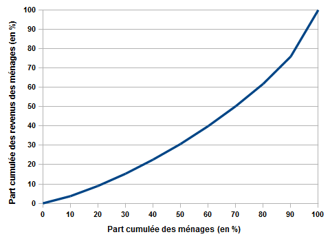 Lorenz Curb for Incomes in France (2007). Data from INSEE.